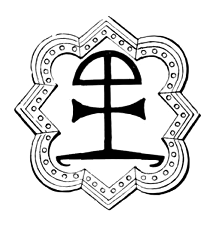 Within a barbed quatrefoil the merchant's mark of Thomas Horton (d.1530), wool merchant of Ilford, Essex, used on Wiltshire English woolens sent to Flanders. From a monumental brass circa 1520 in the parish church of Bradford-on-Avon.